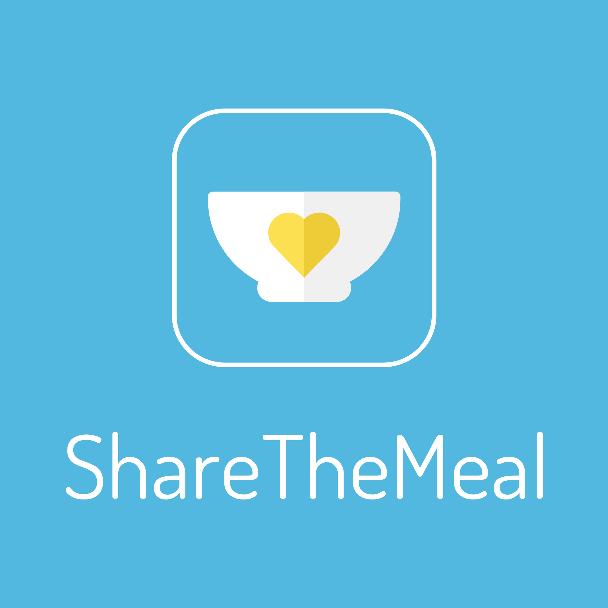 ShareTheMeal